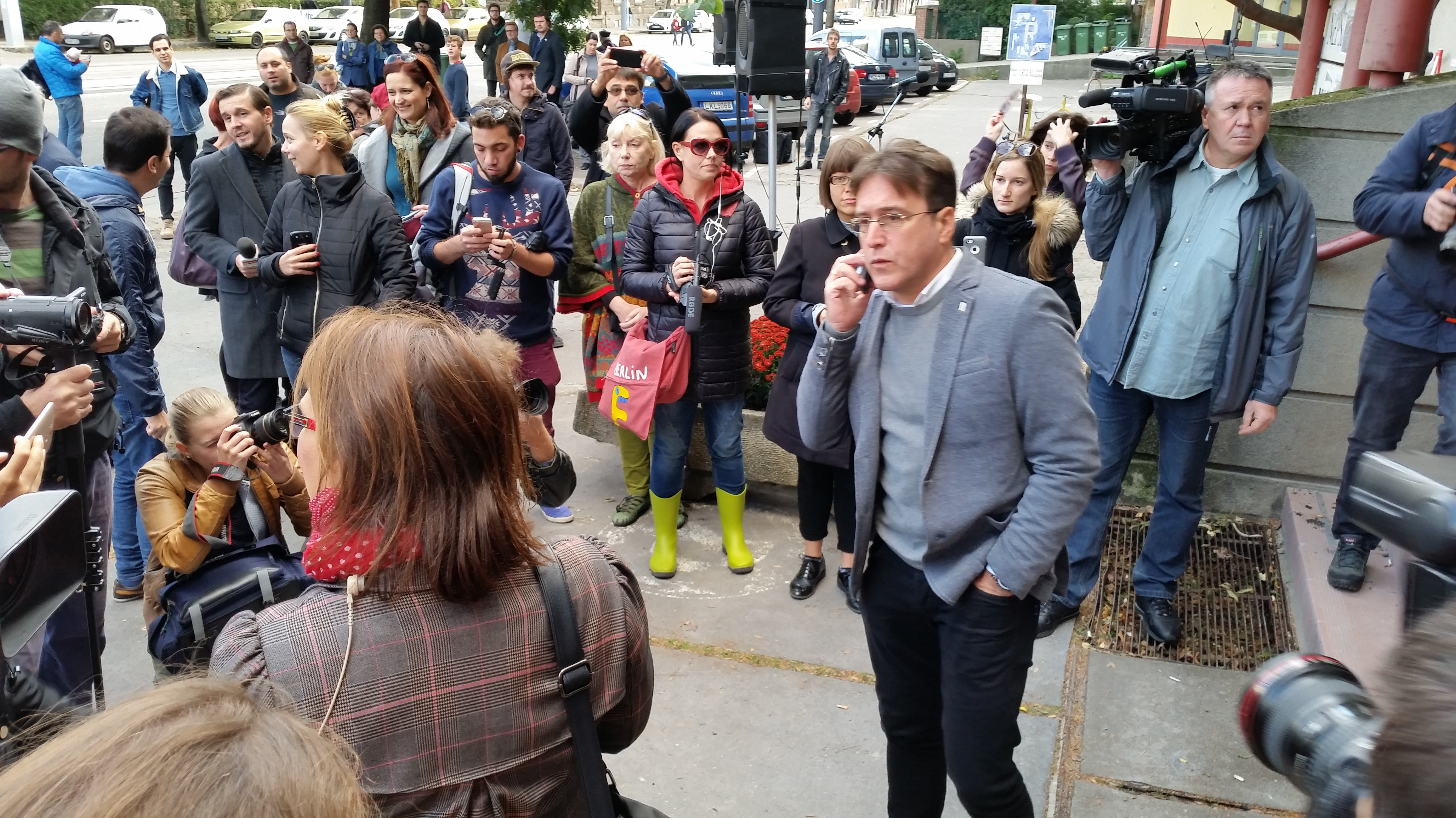 András Murányi, editor-in-chief of Népszabadság at the lockout of the journalists of Népszabadság